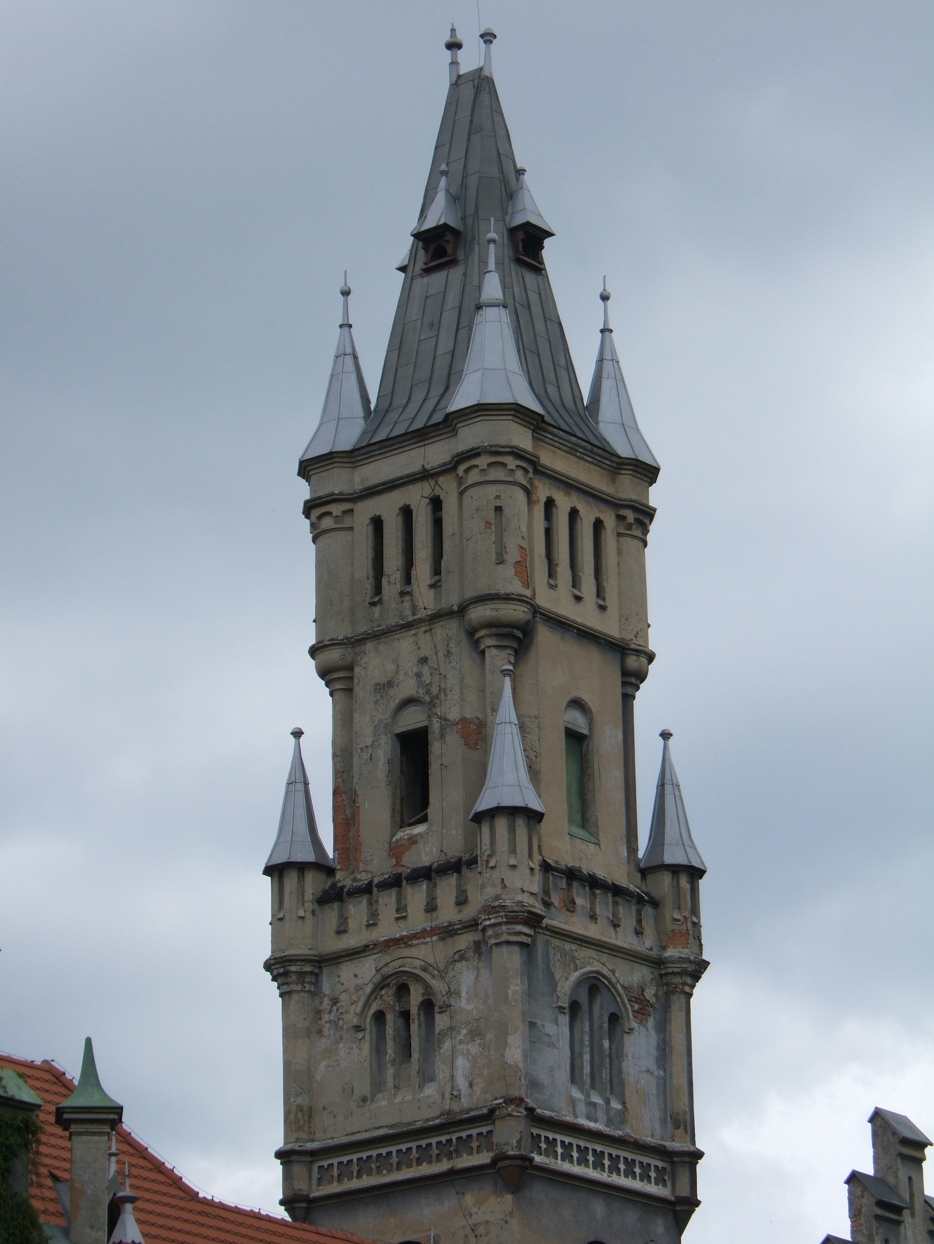 The tower of the palace in Naklo (19th century)